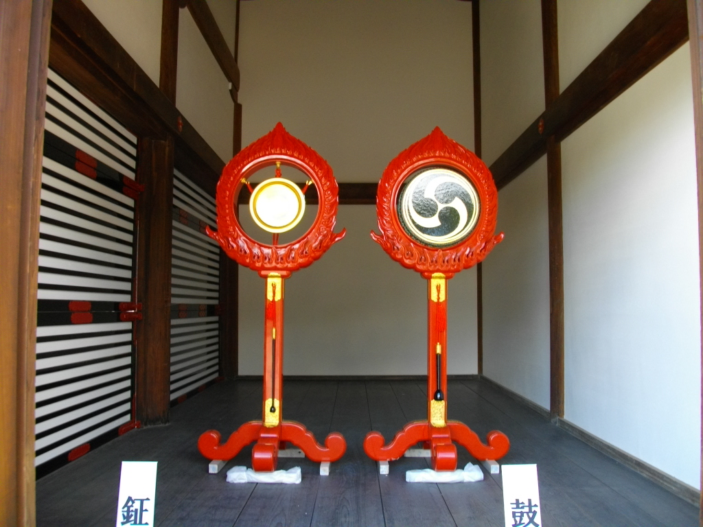 Shoko